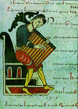 Miniature from "Jongleurs"; Ms. latin 1118; f. 110. Bibliothéque National de Paris.